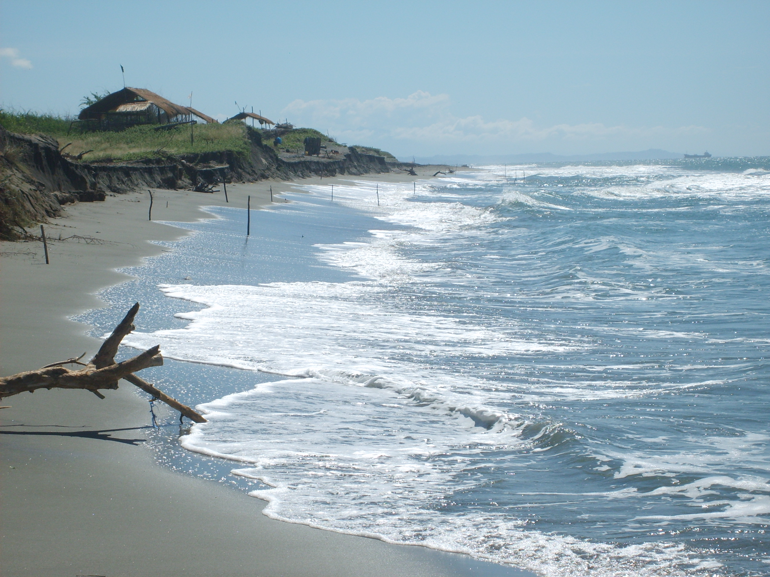 The beach to the west of Vigan, looking south. Ilocos Sur, Philippines.